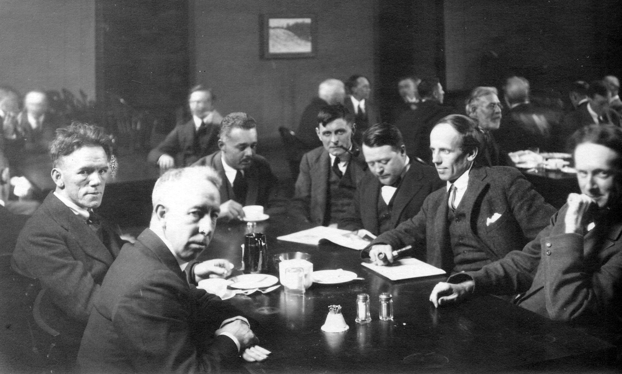 Six of the Group of Seven, plus their friend Barker Fairley, in 1920. From left to right: Frederick Varley, A. Y. Jackson, Lawren Harris, Barker Fairley, Frank Johnston, Arthur Lismer, and J. E. H. MacDonald. It was taken at The Arts and Letters Club of Toronto.